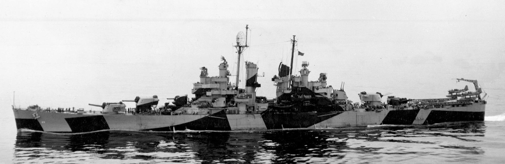 The U.S. Navy light cruiser USS Pasadena (CL-65) underway off Boston, Massachusetts (USA), at 1400 hrs on 21 July 1944. P. The ship's position was 42 45'N, 70 50'W, course 110 degrees. Pasadena is painted in Camouflage Measure 32, Design 24d.